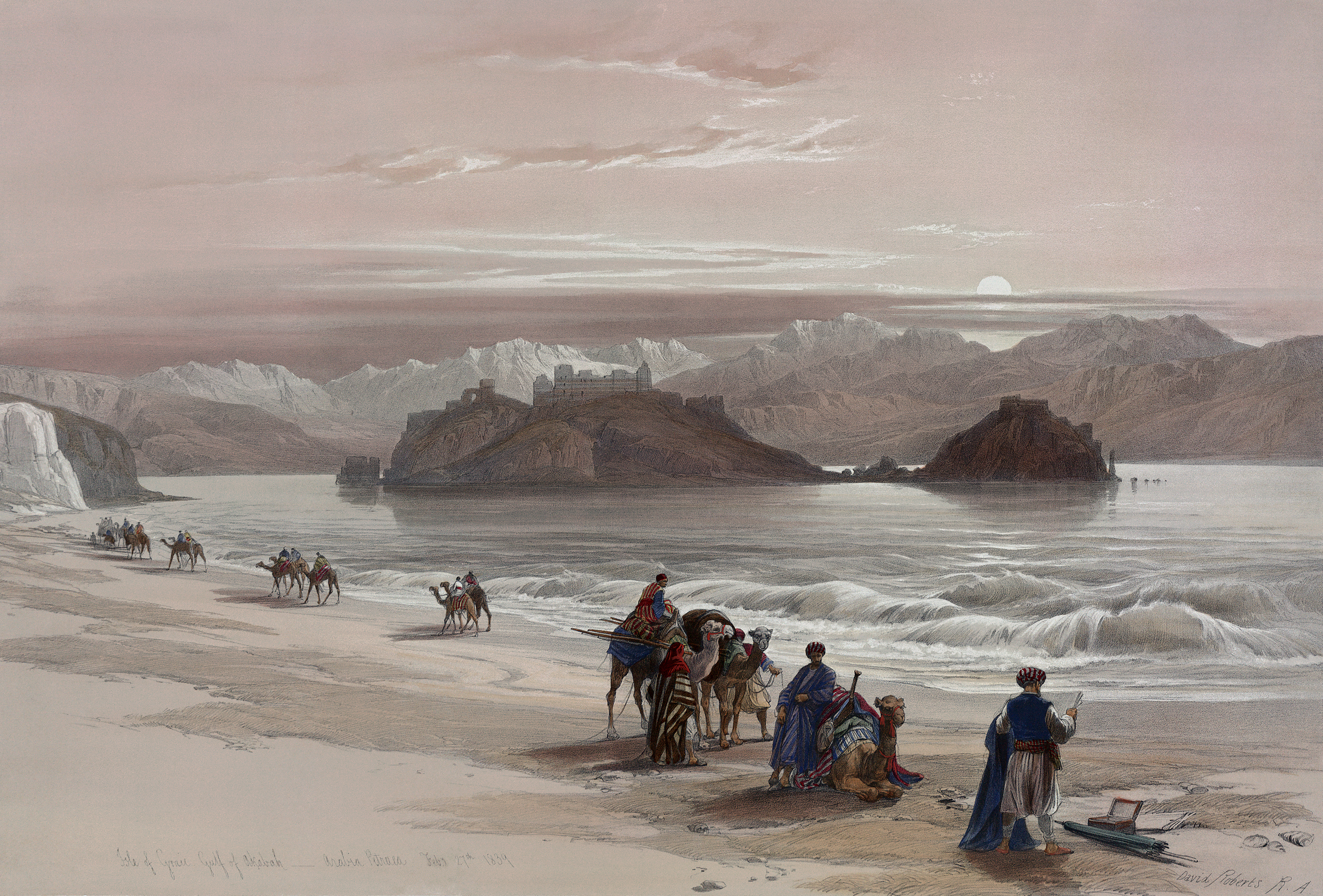 Isle of Graia Gulf of Akabah Arabia Petraea, depicting the Pharaoh's Island in the northern Gulf of Aqaba off the shore of Egypt's eastern Sinai Peninsula.